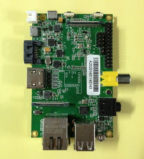 Banana Pi is a single-board computer.